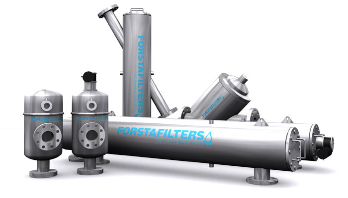 Forsta industrial water filters. The Forsta filters are NEW Green-rinse technology will save you time and money. Visit our site and learn how Forsa can save you.